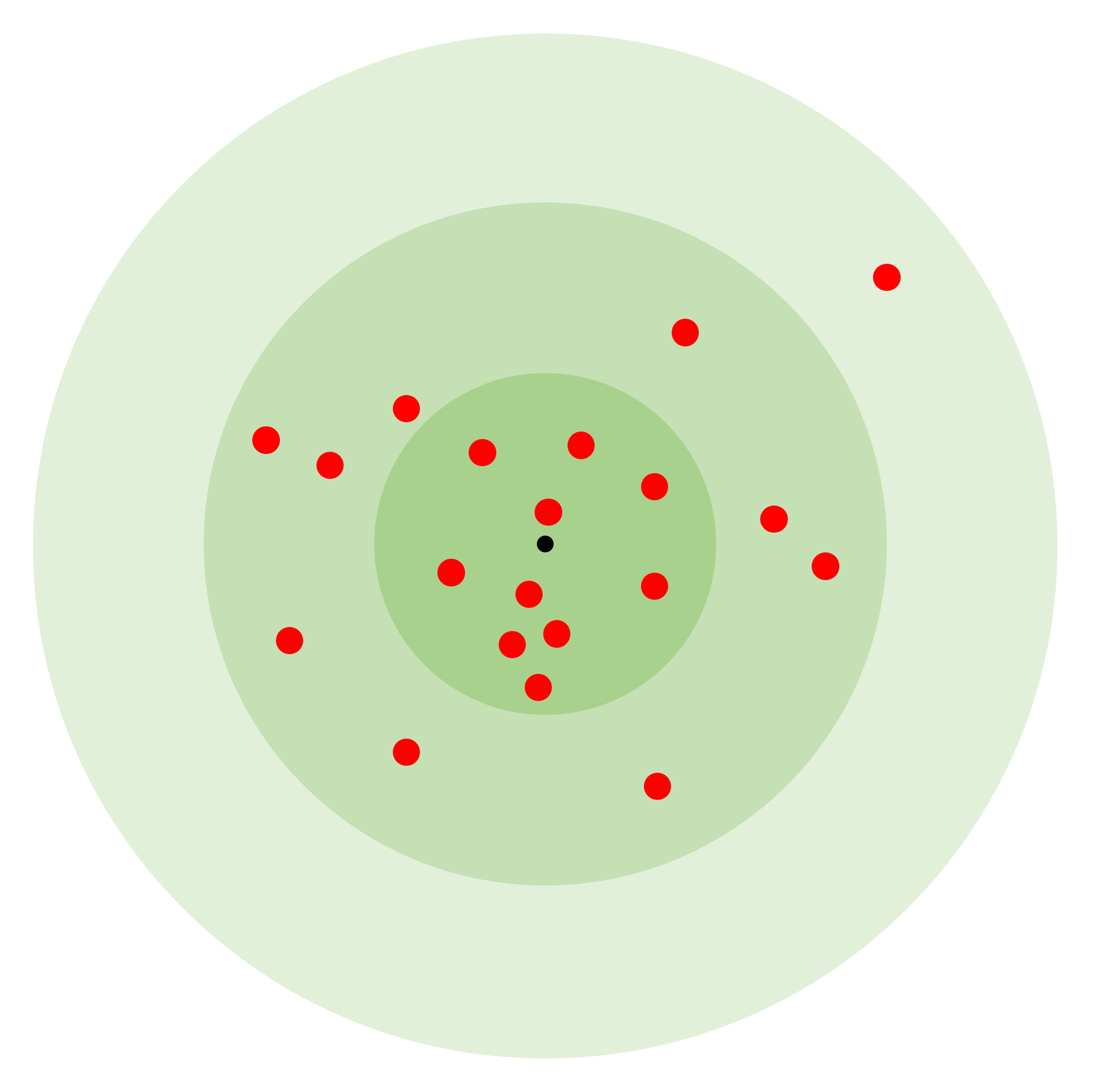 example to Circular error probable with 20 points.